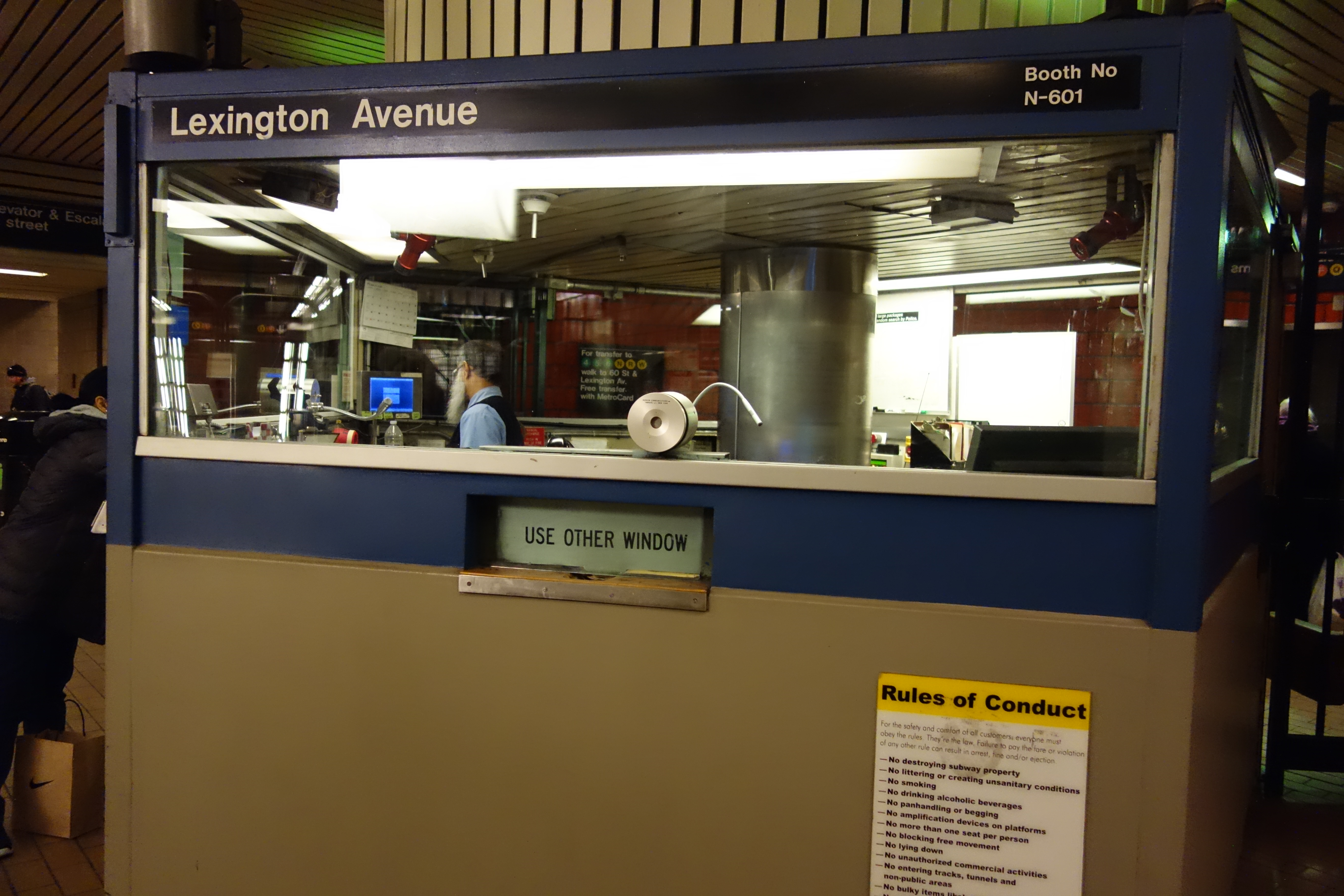 A token booth inside the Lexington Avenue (western) fare control area of Lexington Avenue – 63rd Street subway station in the Upper East Side, Manhattan. The pictured window is closed; I imagine (and remember) that before the proliferation of MetroCard vending machines, these booths required multiple staffers.